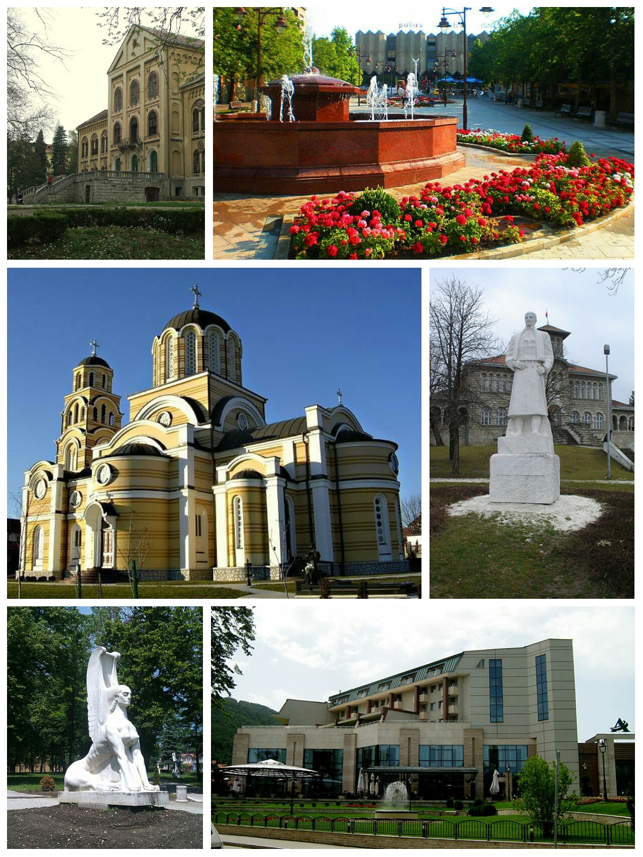 Aranđelovac- photomontage (Prince Mihailo's summer residence, The Main Square in Aranđelovac, Orthodox Church of the Holy Apostles Peter and Paul in Aranđelovac, Monument of Karađorđe in front of school in Orašac near Aranđelovac, Monument of sphinx in the park of Bukovička Banja Spa, Hotel ,,Source")